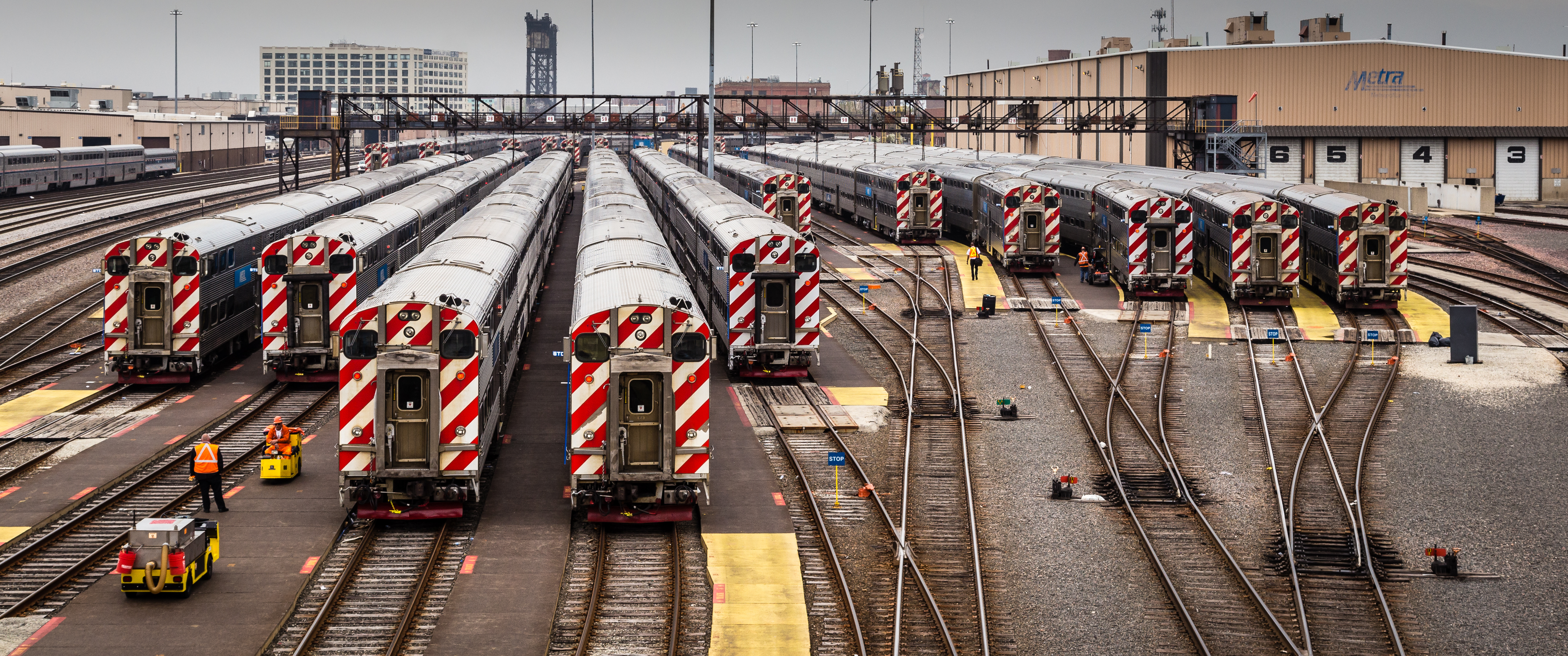 Chicago Rail Images